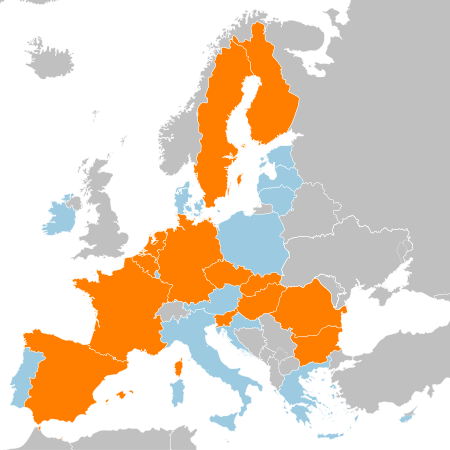 Nuclear energy countries in the EU